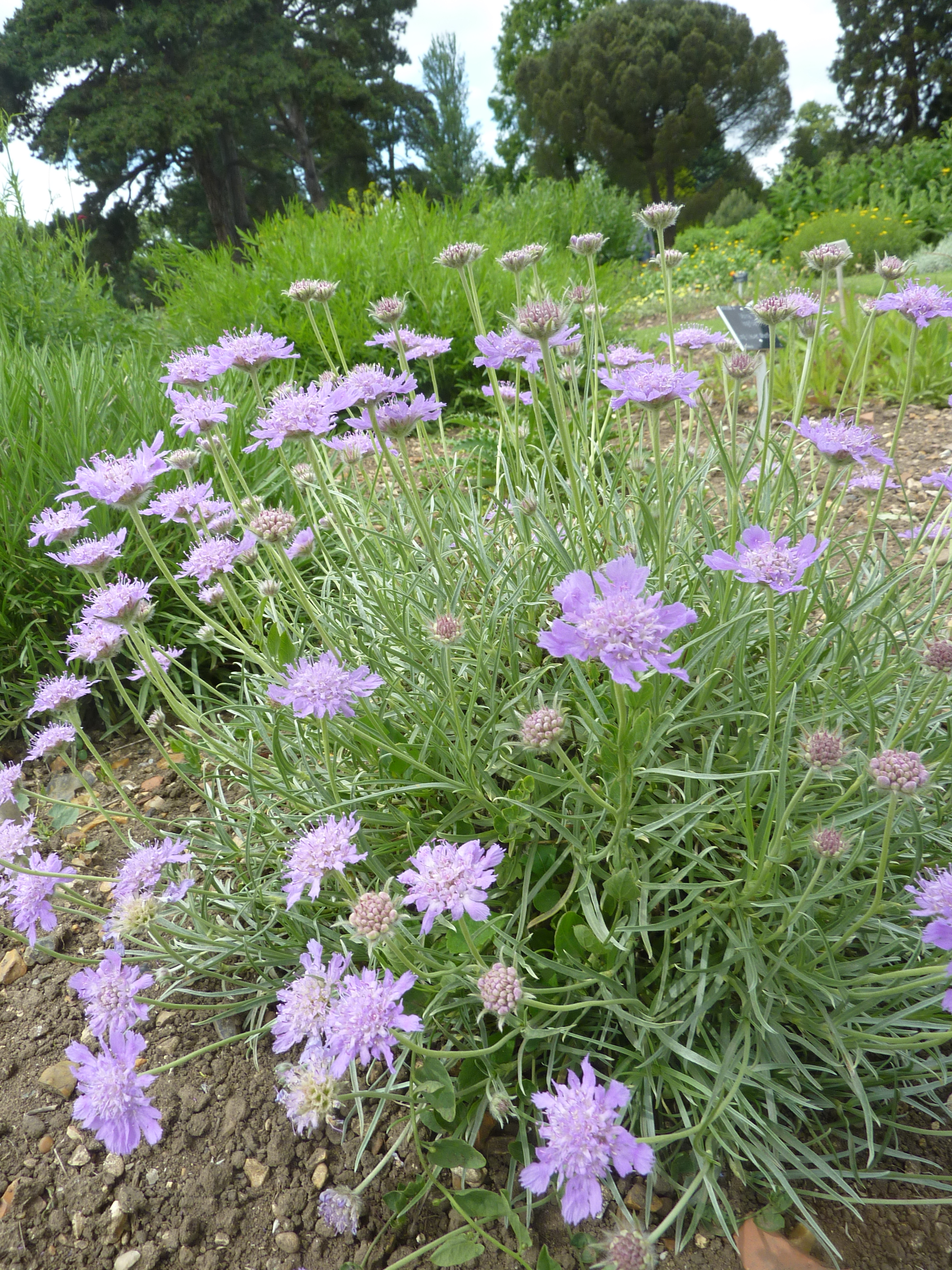 Taken in the Cambridge University Botanic Garden